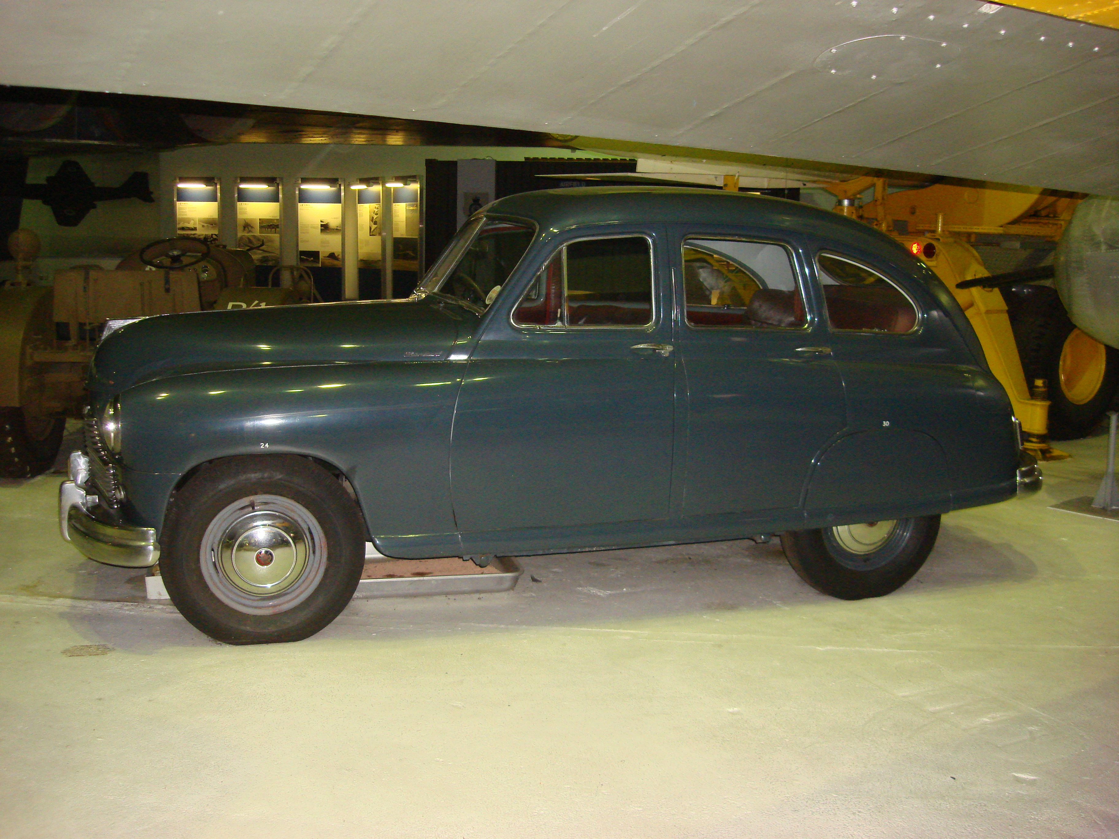 Standard Vanguard, at the RAF Museum, London. This car was used to transport V-bomber crews to their aircraft